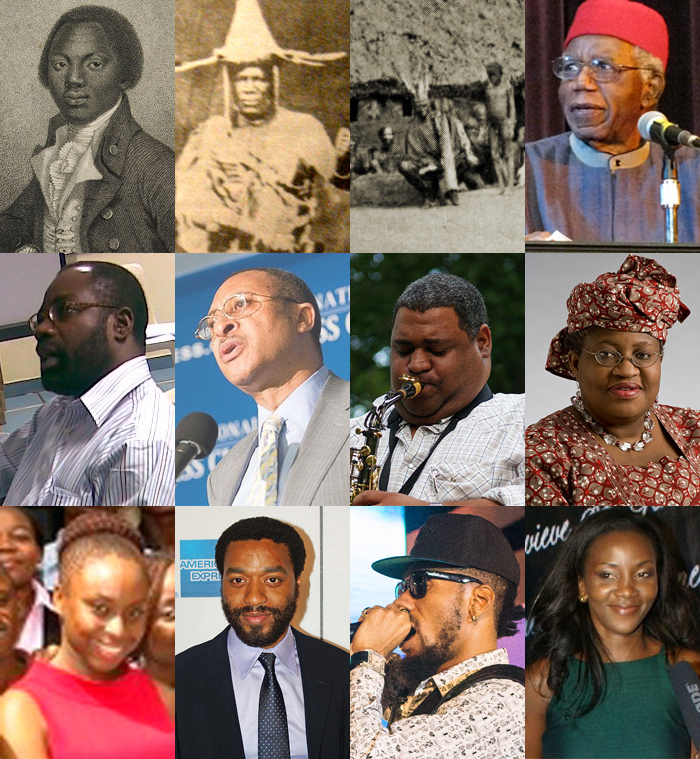 Collage of notable people of Igbo ethnicity. From top left: Olaudah Equiano Jaja of Opobo Eze Nri Òbalíke Chinua Achebe Philip Emeagwali Patrick Utomi Chris Abani Ngozi Okonjo-Iweala Chimamanda Ngozi Adichie Chiwetel Ejiofor Phyno Genevieve Nnaji